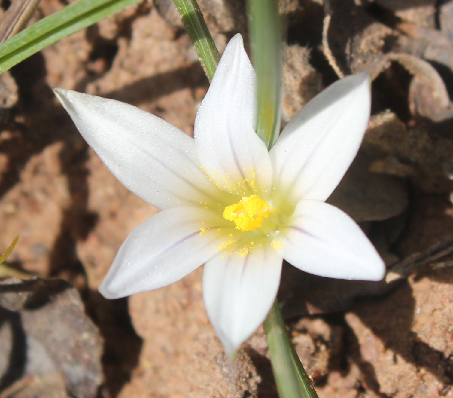 Romulea columnae tepals